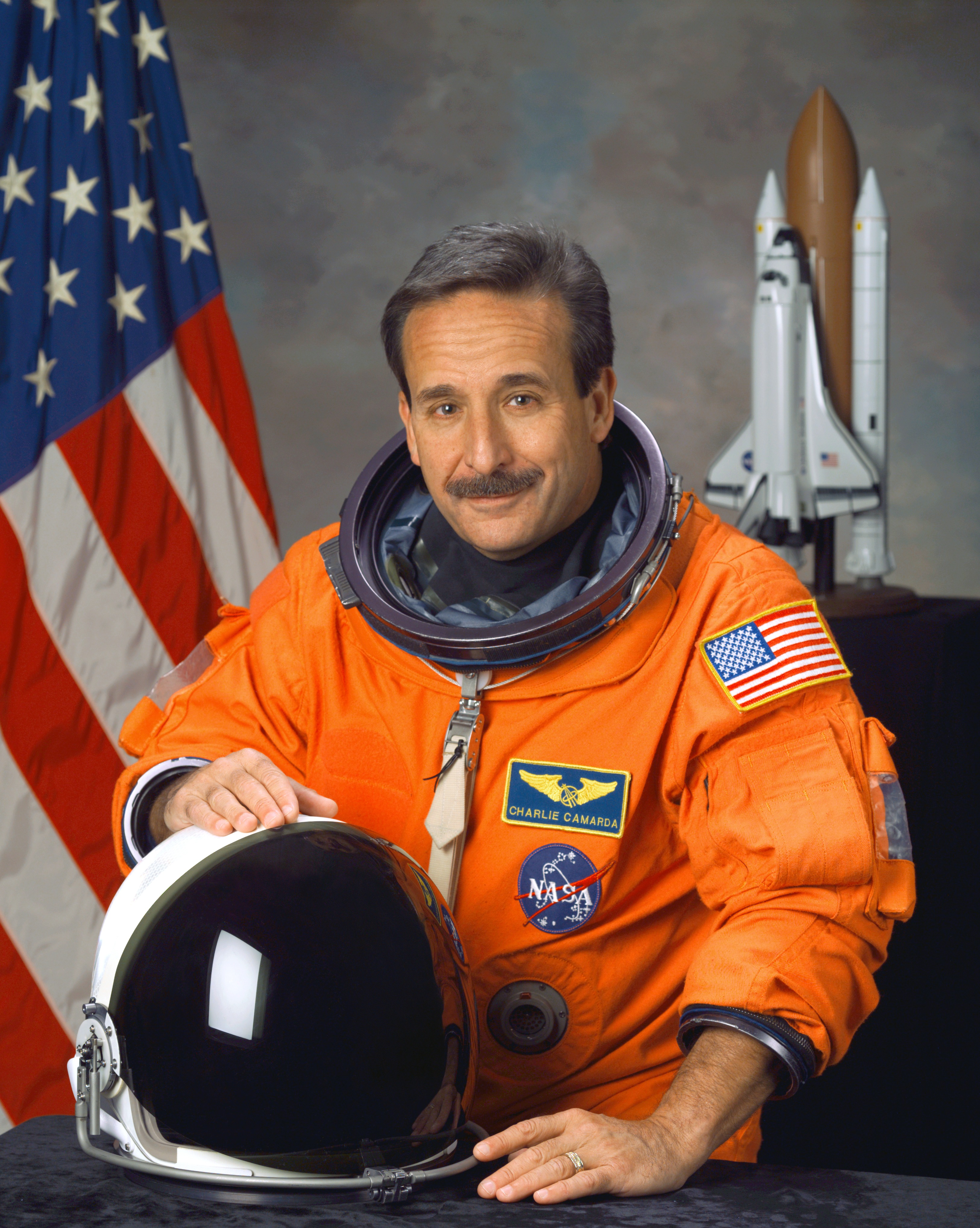 Astronaut Charles J. Camarda, STS-114 mission specialist.